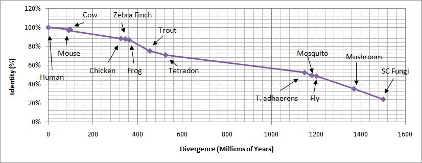 Graph of identity of the C11orf73amino acid sequence against the divergence time.